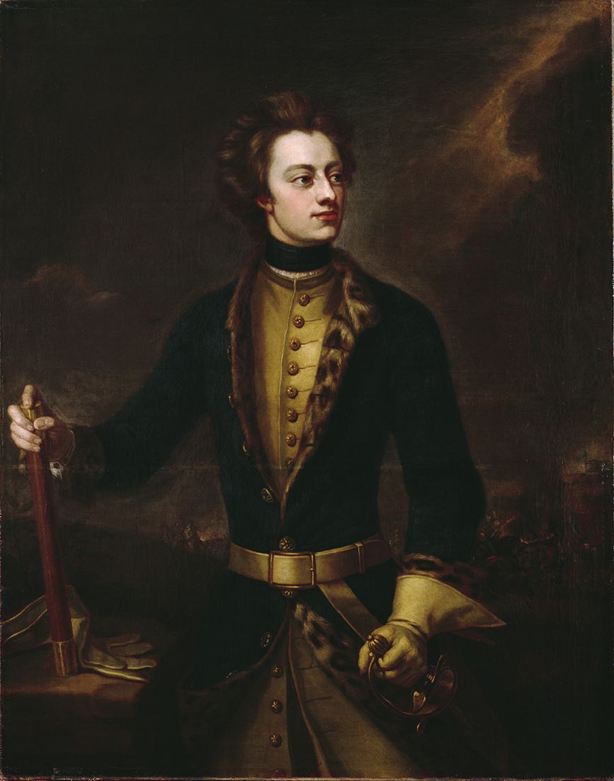 King Charles XII of Sweden (1682-1718)